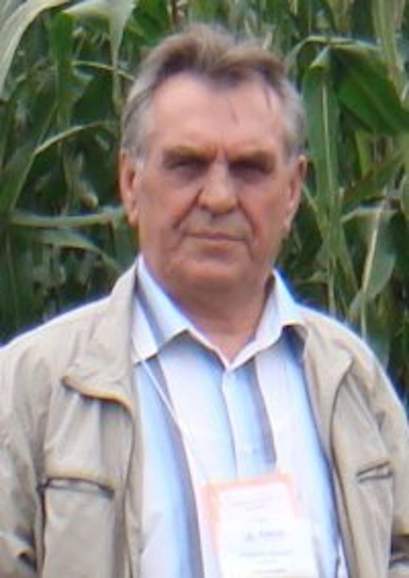 This is photo Panacin V.I.